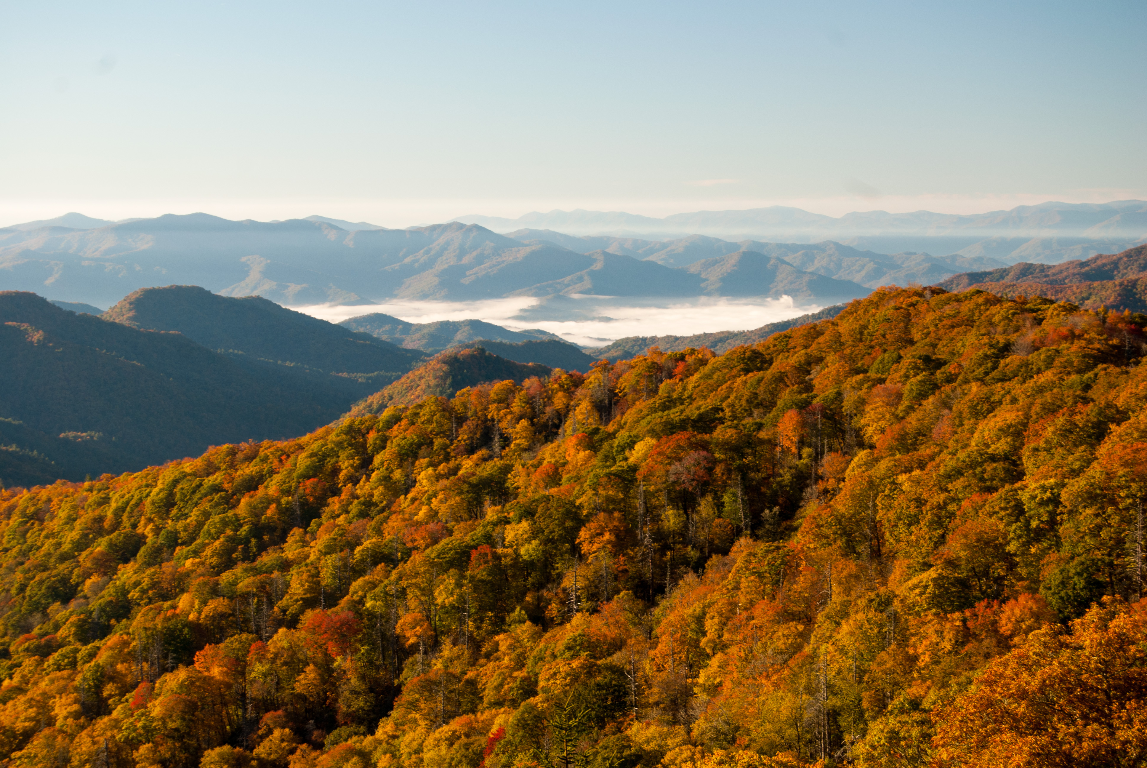 Fall Morning